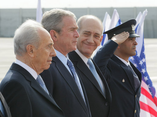 President George W. Bush elicits a smile from Israel’s Prime Minister Ehud Olmert, right, as they join Israeli President Shimon Peres for arrival ceremonies Wednesday, Jan. 9, 2008, at Ben Gurion International Airport in Tel Aviv.